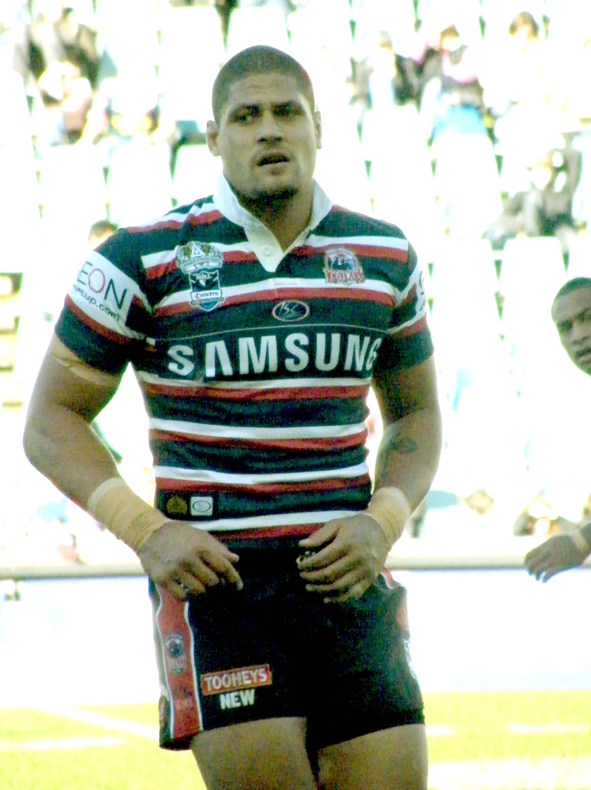 Sydney Roosters forward Willie Mason.